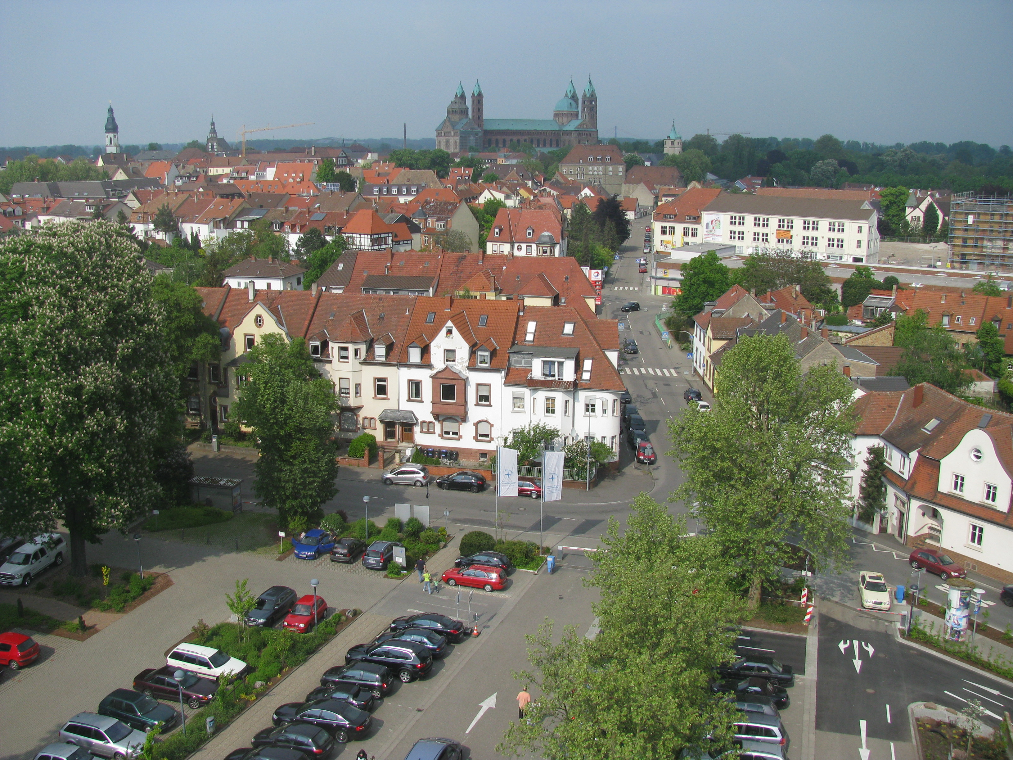 Speyer: Southern section of the old city looking northeast (cathedral in the background) (seen from Diakonissen hospital)